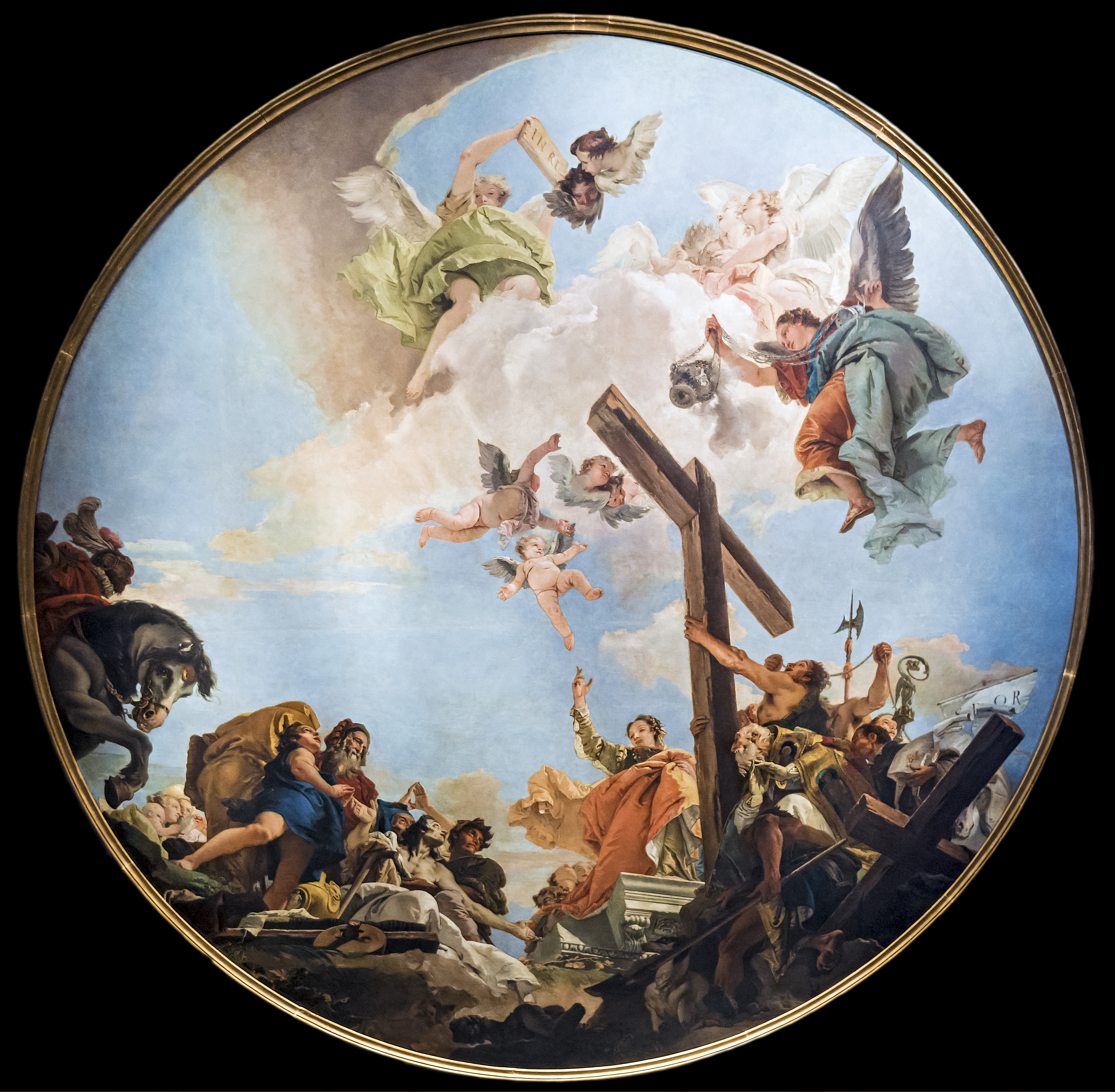 The Fest of the Cross and St. Helena by Giambattista Tiepolo, Gallerie dell'Accademia in Venice. Oil on canvas, (1740-45). Diameter 500 cm. Acquisition 1913 - Coll. Generoso Anes of Toledo. Inventory number: Cat.789